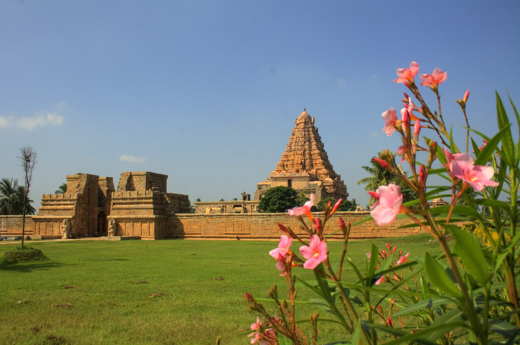 Gangaikonda Cholapuram Brihadisvara temple built by the Great Rajendra Chola